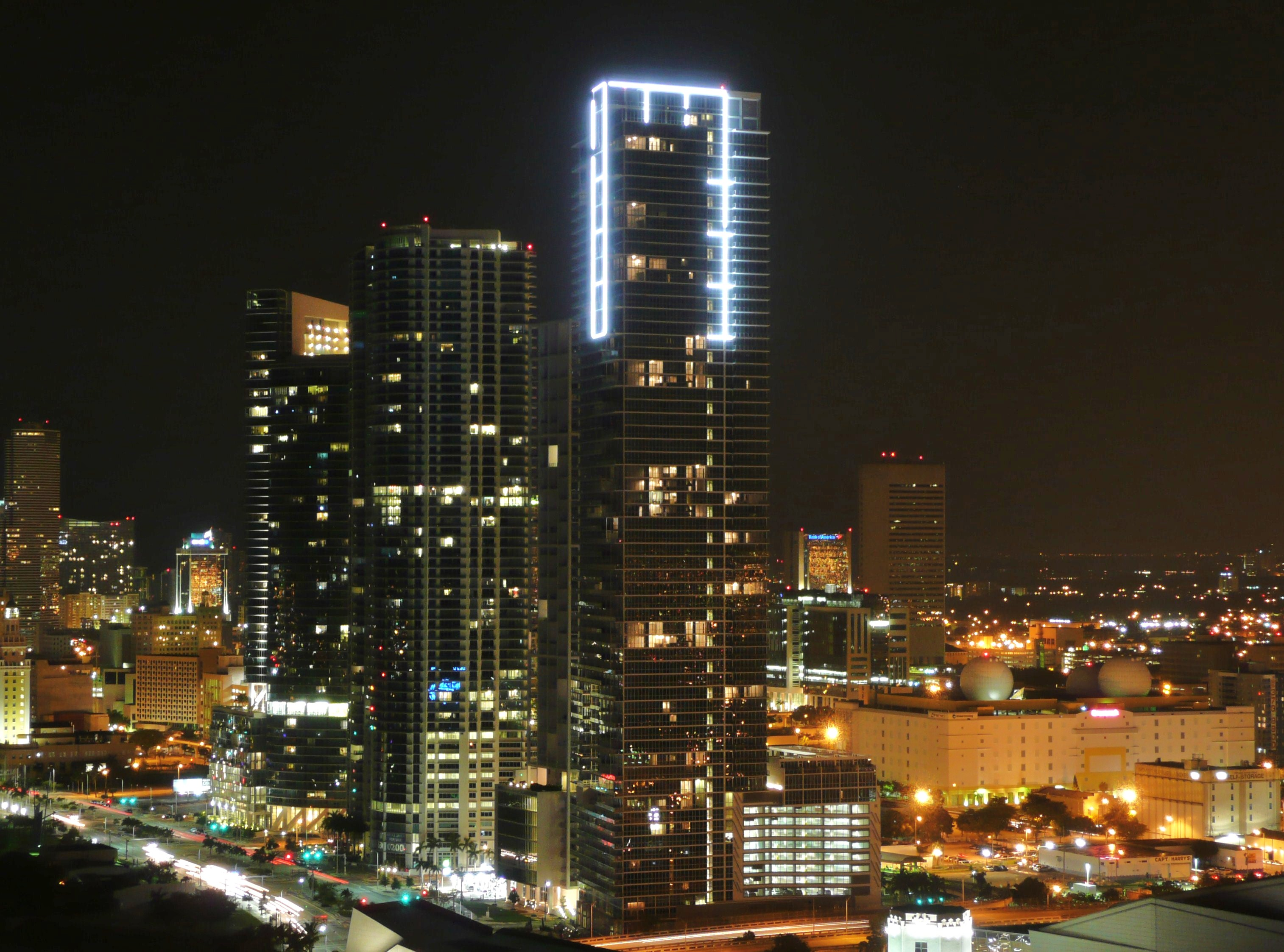 Digital photo taken by Marc Averette. Marquis building in Downtown Miami at night.